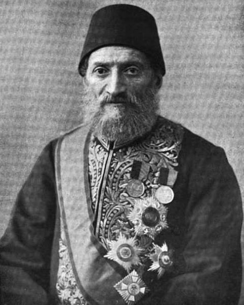 Mehmed Kamil Pasha (1833-1913), the Grand Vizier of the Ottoman Empire